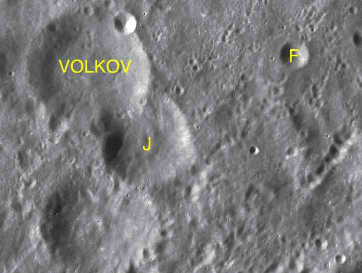 Part of the chart LAC-84 used for the presentation